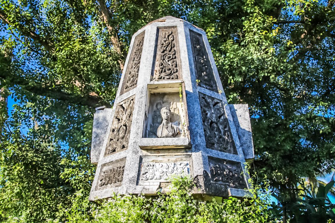 A stupa that represents Borei O'Svay Sen Chey District, that was built by king Norodom Sihanouk in the 1960s. ភាសាខ្មែរ: ស្តូបមួយដែលតំណាងឱ្យស្រុកបុរីអូរស្វាយសែនជ័យ ដែលត្រូវបានសាងសង់ដោយព្រះបាទនរោត្តមសីហនុក្នុងទសវត្សឆ្នាំ ១៩៦០។